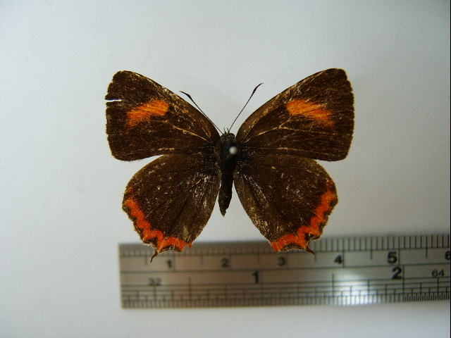 Kerry took this picture at his house on 16 July 2005 Scientific name: Heliophorus ila matsumurae ♀ Date of collection: 22 II 1996 Place of collection: Taipei city, Taiwan